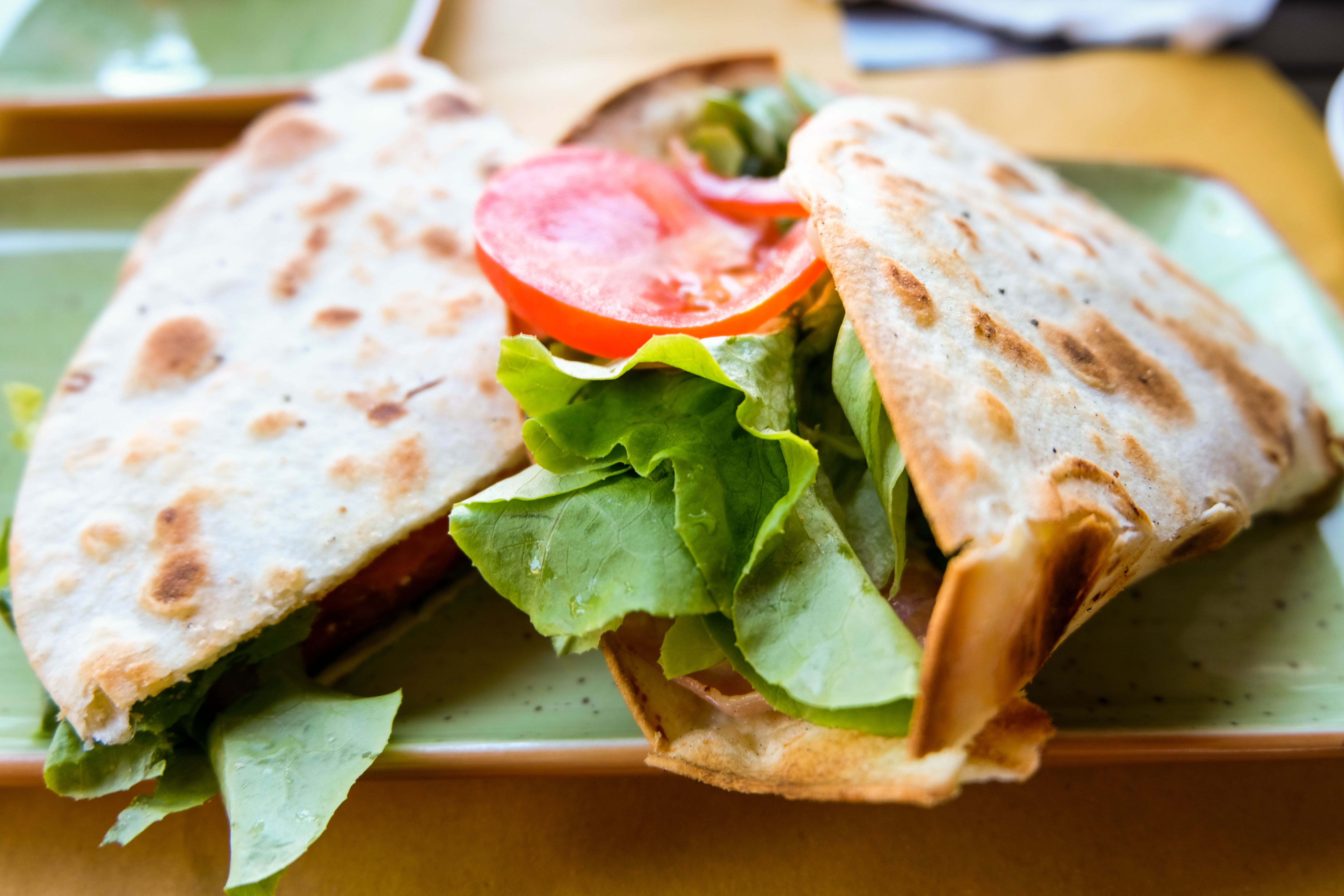 Free CC0 Stock Photo of Piadina Sandwich Breakfast with Salad and Tomatoes - Check out more free photos on